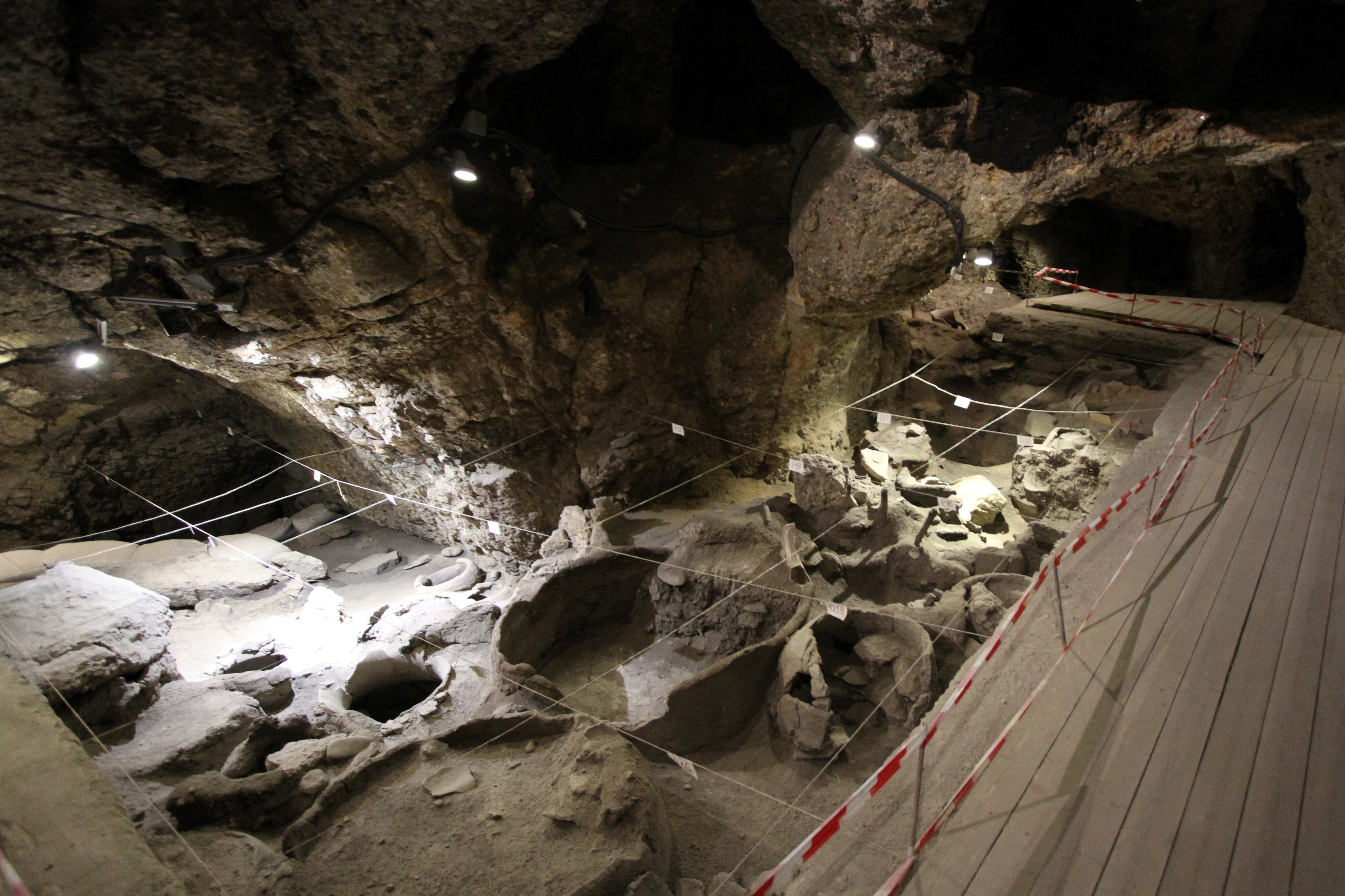 Cave Areni-1 in Armenia